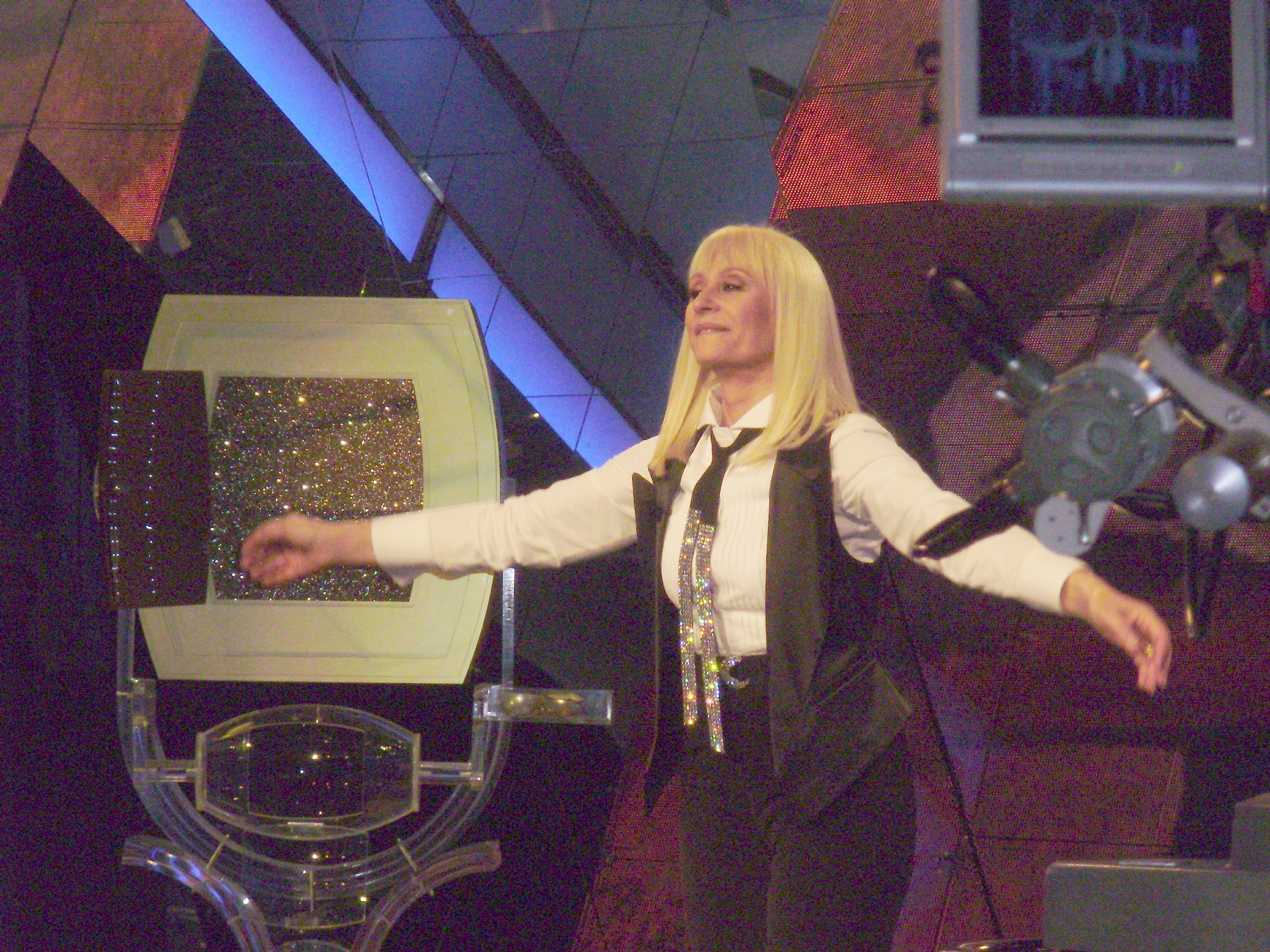 Raffaella Carrà, 2008